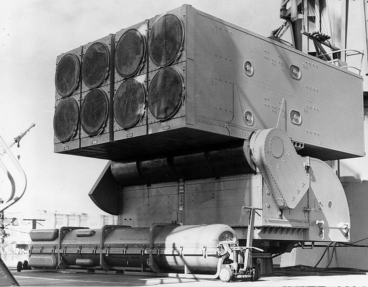 A Mk 12 ASROC (Antisubmarine Rocket) launcher aboard the U.S. Navy guided missile cruiser USS Columbus (CG-12), in 1962. Note the shipping canister on deck by the launcher, probably containing an RUR-5A ASROC rocket.